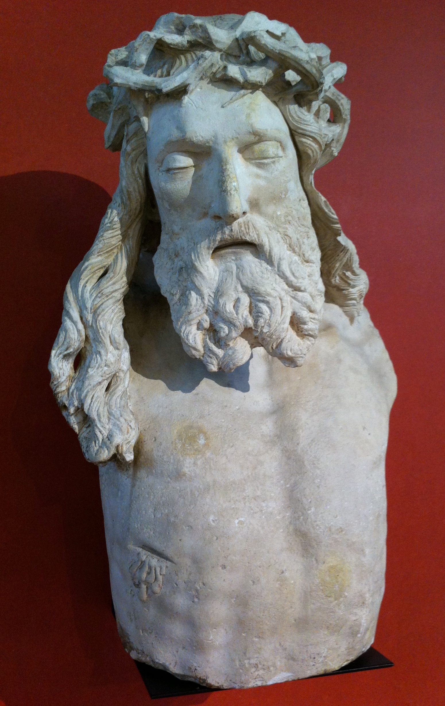 Christ with crown of thorns. Blood is flowing from a wound in his right side. Limestone, traces of paint. Fragment of a crucifix, which was placed in July 1399 on the base of the Well of Moses in the courtyard of the carthusian monastry of Champmol in Dijon. It was separated from this monument at the end of the 18th century (presumably before the Revolution). The Christ with crown of thorns was found during the 19th century built into a wall in Dijon and was later placed in the Dijon Musée archéologique. The crucifix was originally accompanied by statues of Mary, John and Mary Magdalen (now lost). According to G. Troescher possibly executed by Jean de Prindale after a design by Sluter. The statues were polychromated under Jean Malouel.